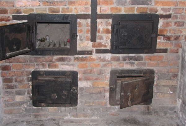 Auschwitz I crematoria - exit